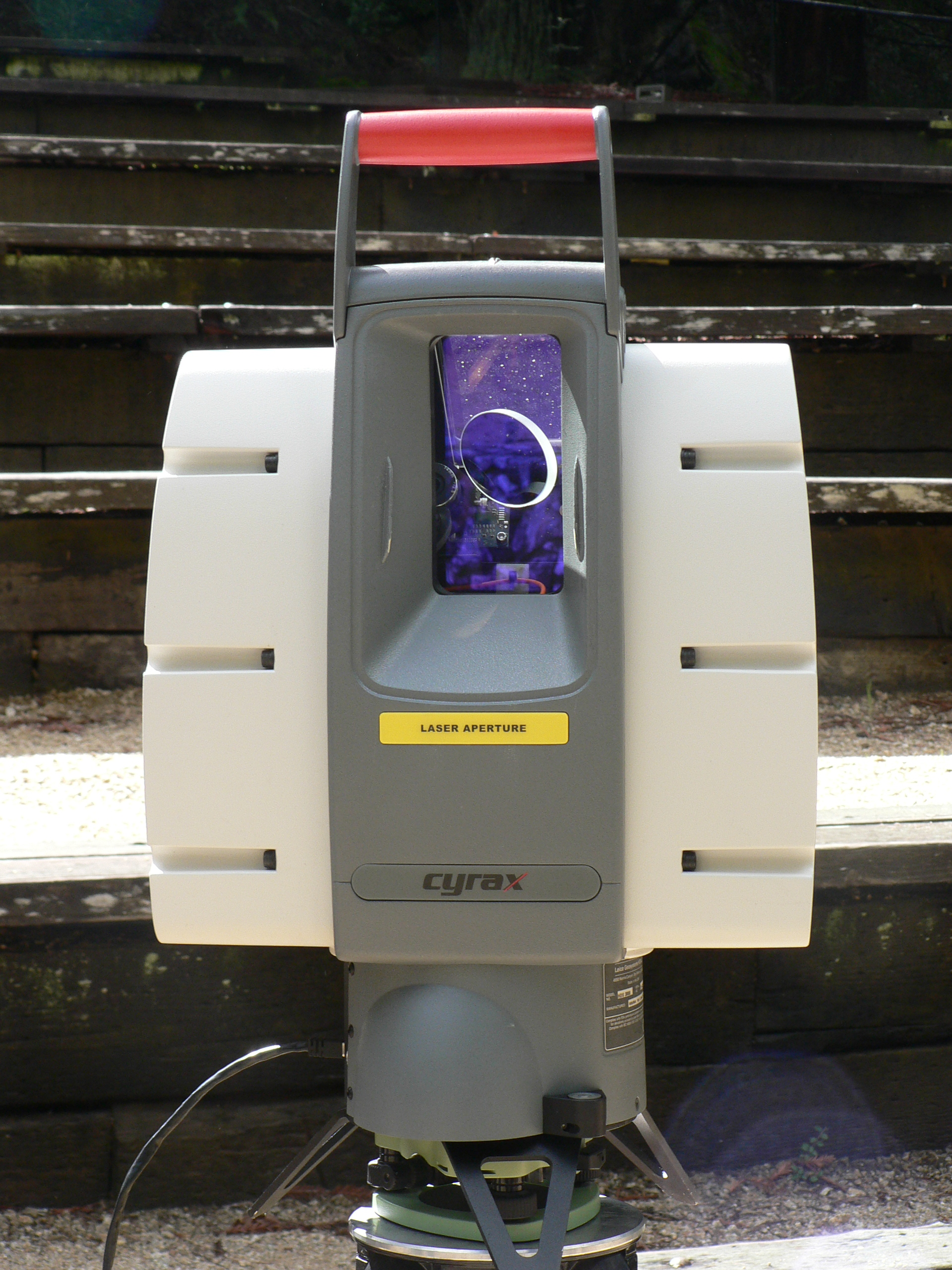 This lidar (laser range finder) may be used to scan buildings, rock formations, etc., to produce a 3D model. The lidar can aim its laser beam in a wide range: its head rotates horizontally, a miror flips vertically. The laser beam is used to measure the distance to the first object on its path. Model: Leica HDS-3000 The Lidar was being demonstrated at UC Santa Cruz when the photo was taken.